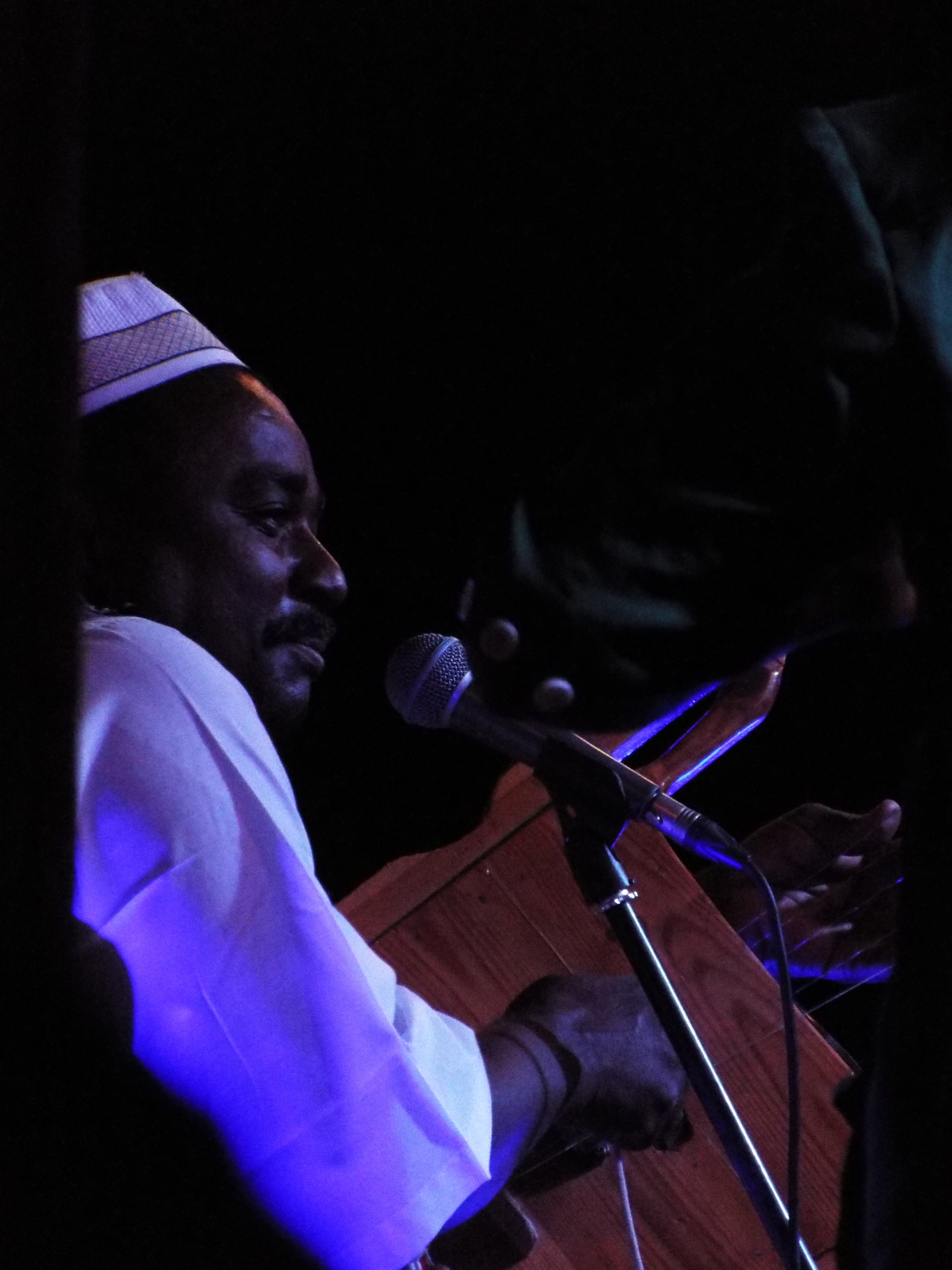 Sudanese musician playing with Banimbo This is an image from Egypt